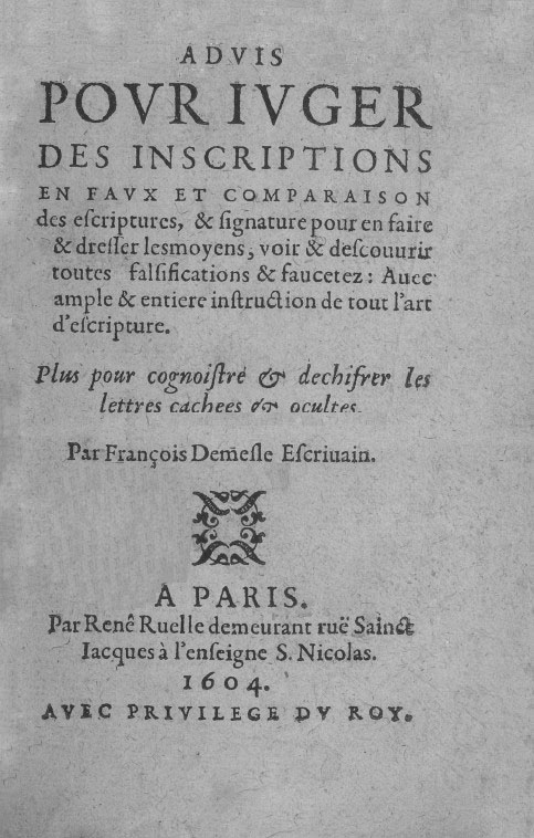 Ttle page of Demelle's Advis (1604)